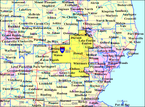 Map of Michigan's 8th congressional district for the en:106th United States Congress, illustrating boundaries prior to redistricting in 2002.